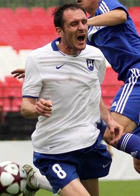 Serbian midfielder Marko Djalović